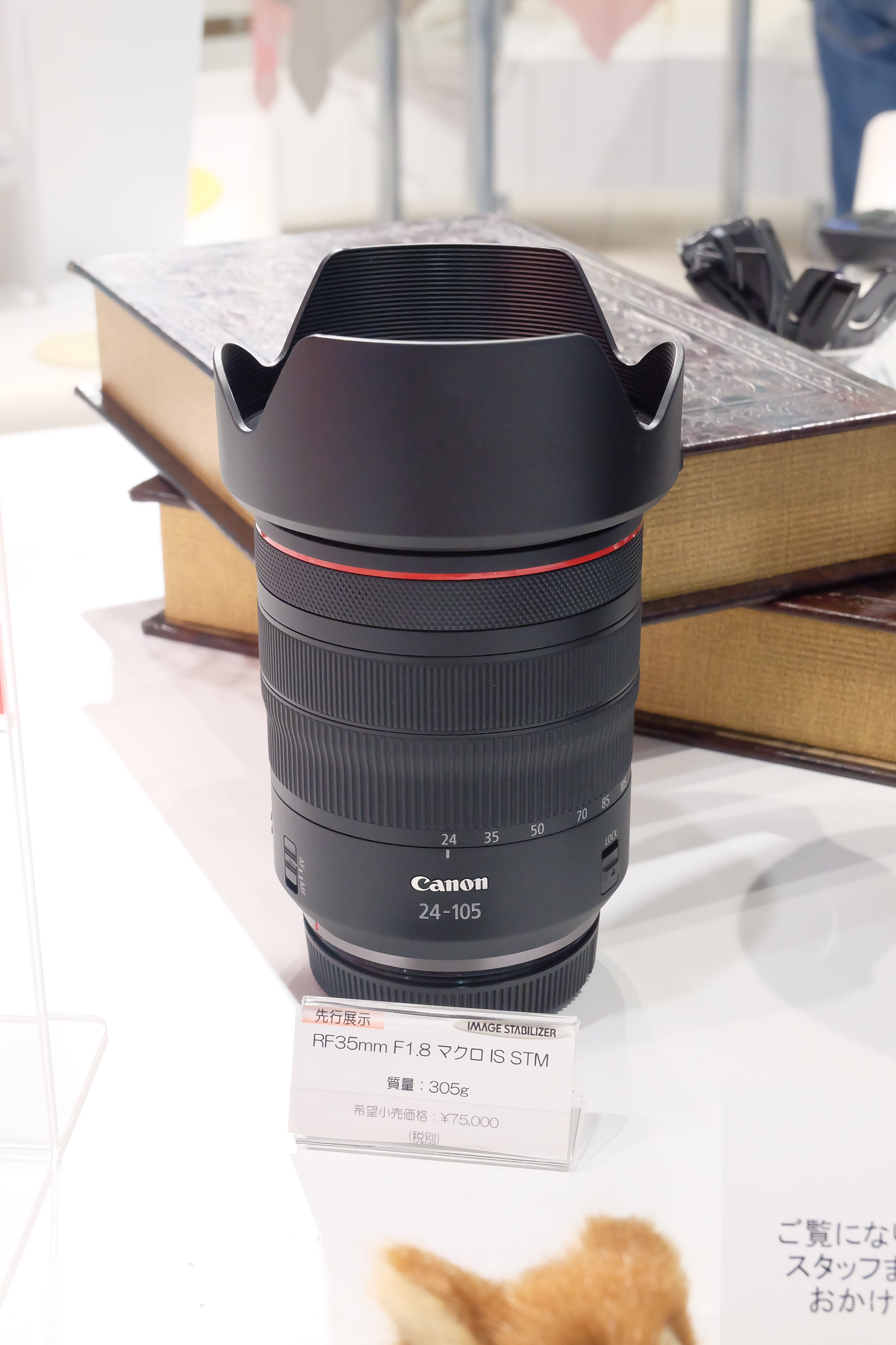 Canon RF mount lens RF24-105mm F4 L IS USM, photo taken at Canon Gallery S on Shinagawa, Tokyo, Japan